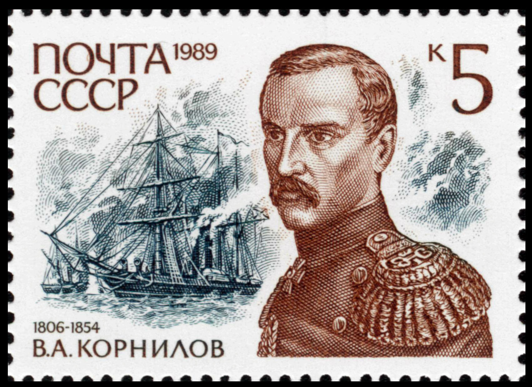 Russian Admirals. Kornilov. USSR stamp from a stamp sheet of 6 USSR stamps, Russian Admirals, 1989.